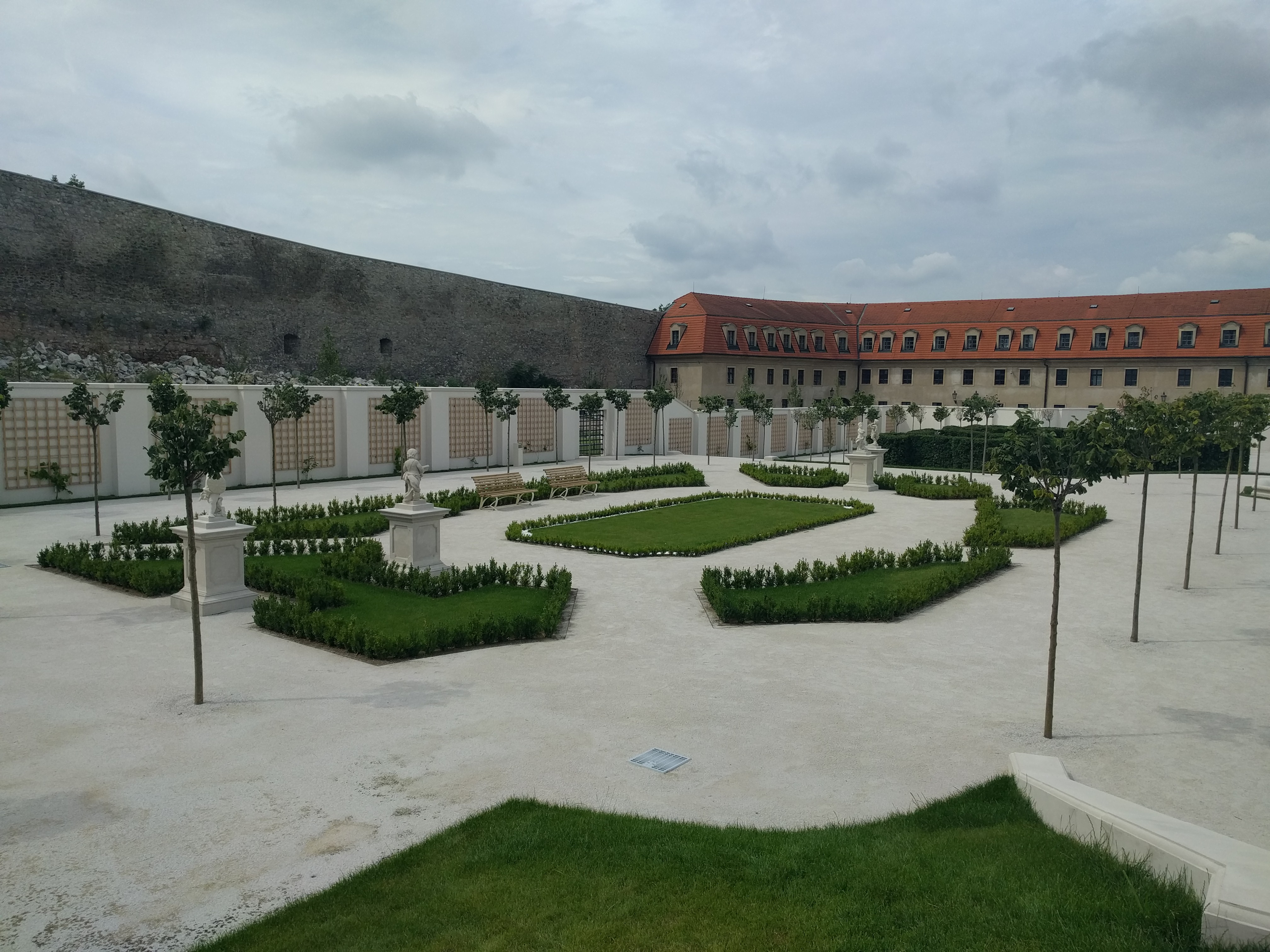 Gardens of Bratislava Castle